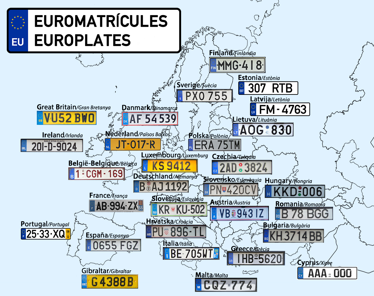 Map of europlates.